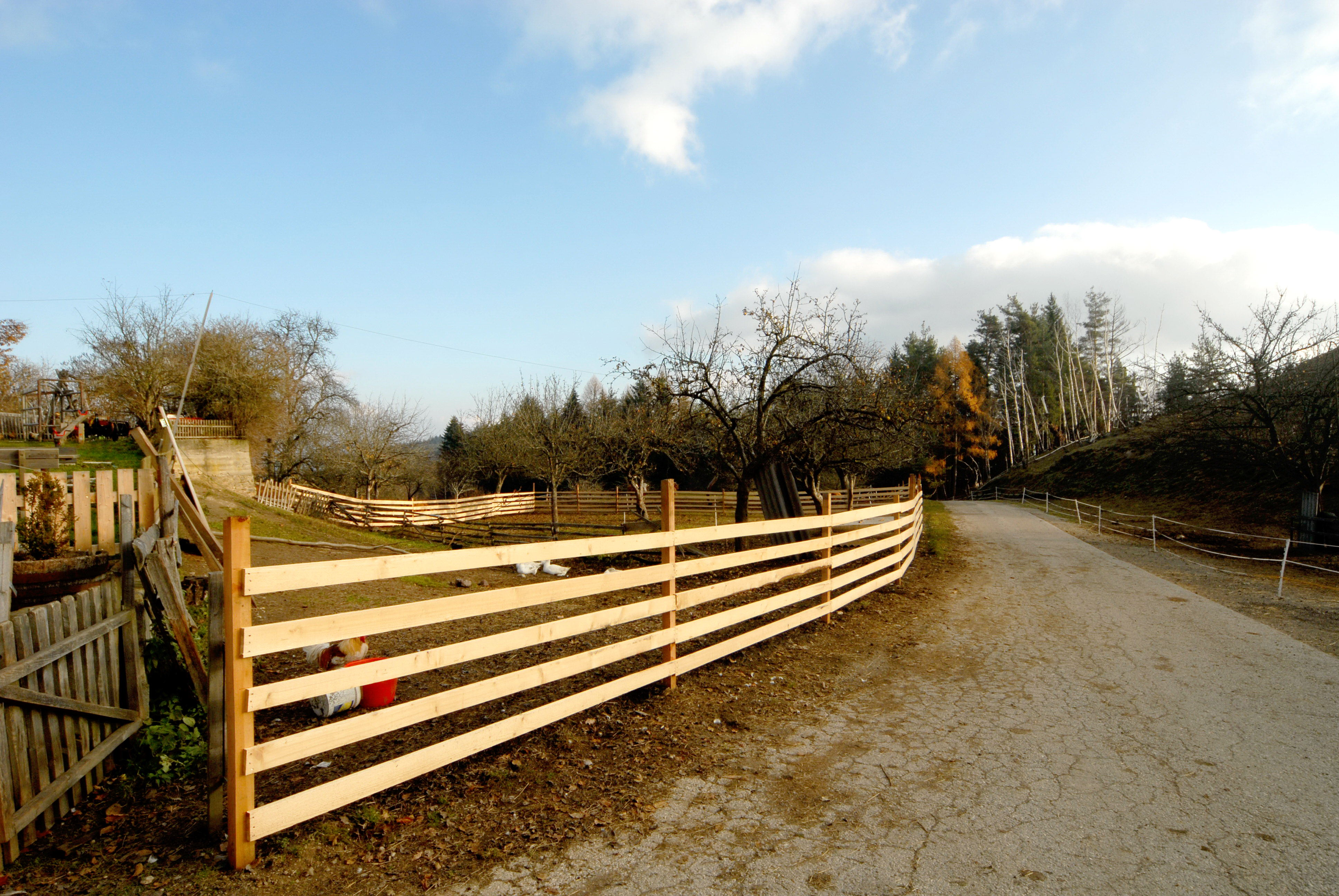 Wooden pasture fence near Klagenfurt, Carinthia, Austria.